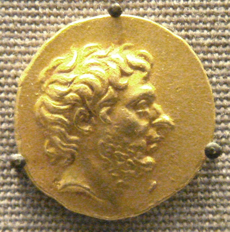 Quinctius_Flamininus